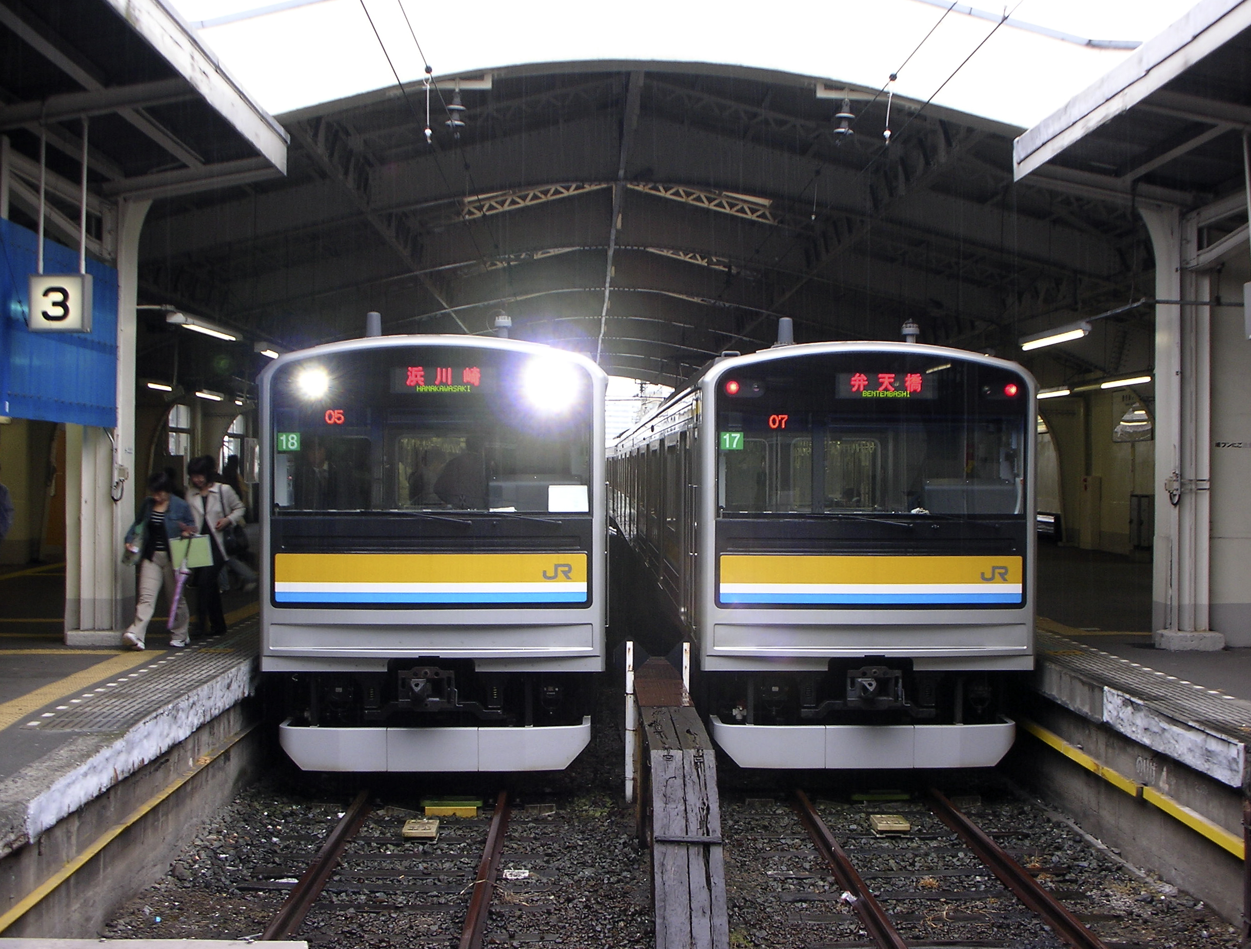 Two JR East 205-1100 series EMUs at Tsurumi Station on Tsurumi Line services